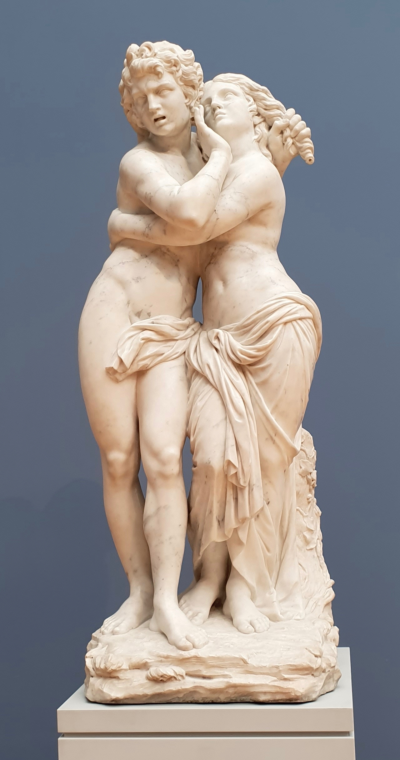 Biblis and Caunus by Laurent Delvaux at Bode Museum